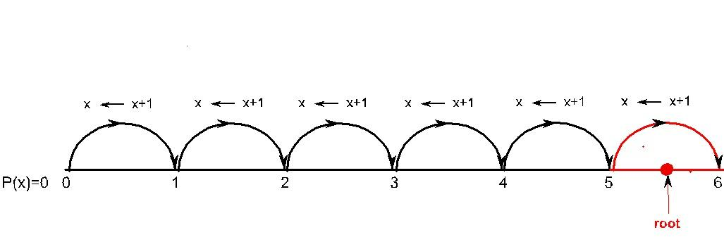 Application of Vincent's theorem